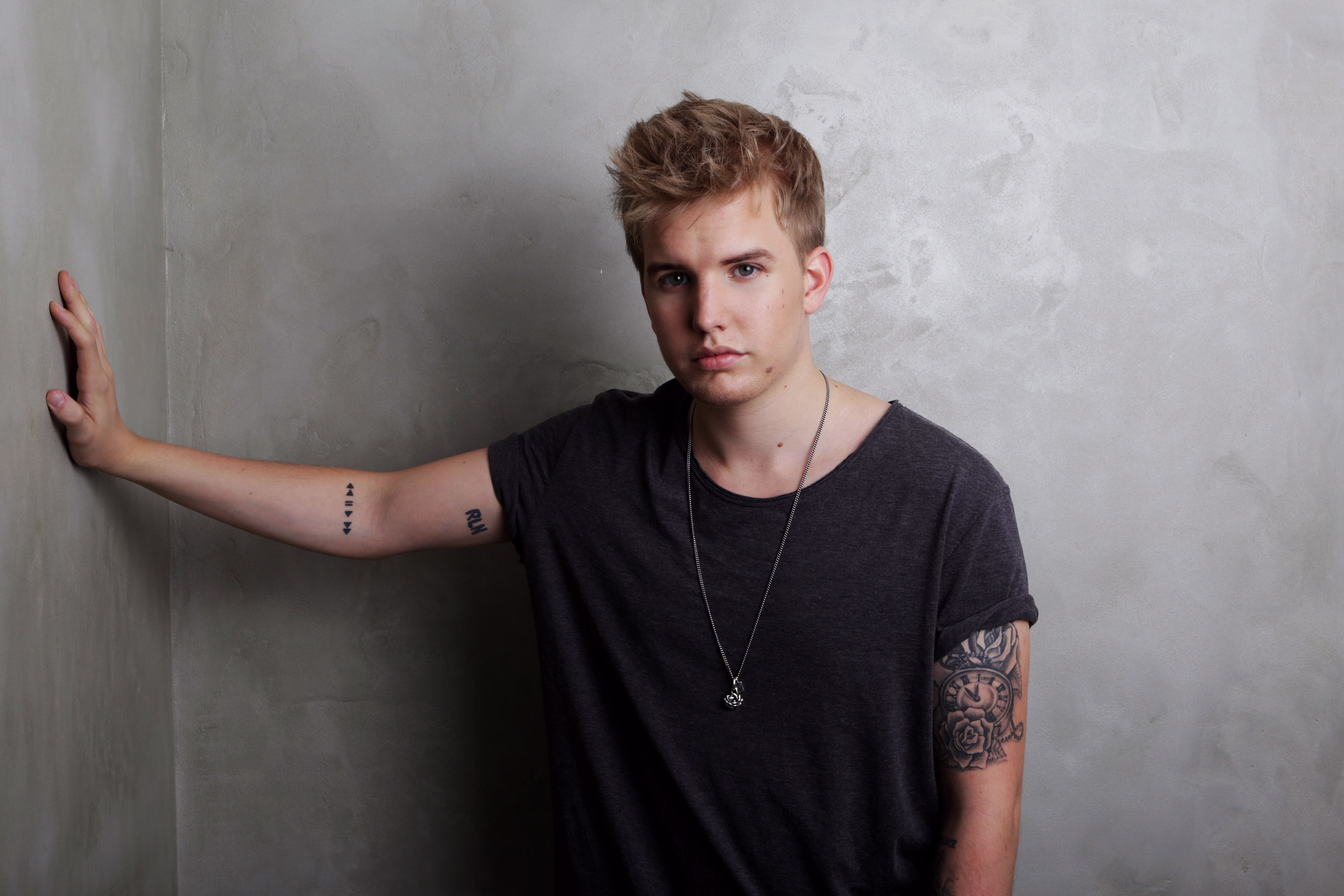 Pressefoto von Kayef